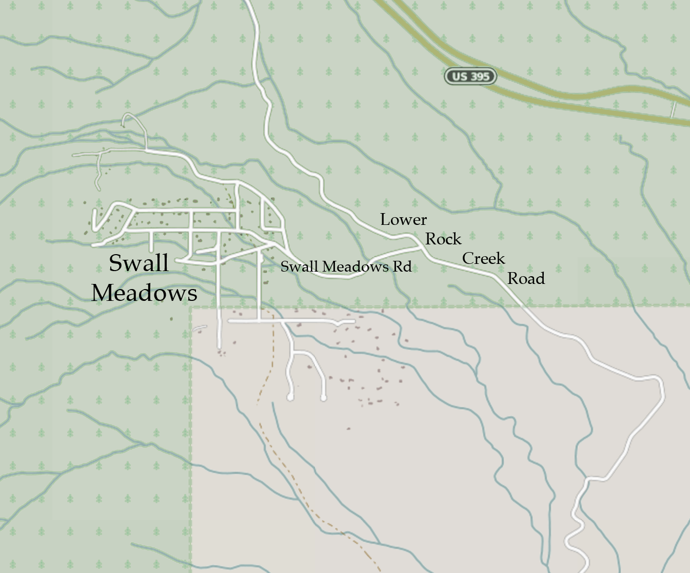 Street map of Swall Meadows community, Mono County, California. Adapted from Open Street Map.